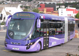 An ftr bus (#19035 reg. S40 FTR) in Swansea, Wales. It is pictured on West Way in the city centre, en route to the terminus at the University. It's running on the city centre metro track, a bi-directional red-tarmaced dedicated busway which parallels Orchard Street, The Kingsway & West Way, linking the station in the north to the Civic Centre in the south. The bus is pictured here at the southern end of West Way, where the busway then crosses Oystermouth Road for the final stretch in its own dedicated landscaped alignment, which provides a shortcut into the Civic Centre complex's roads.